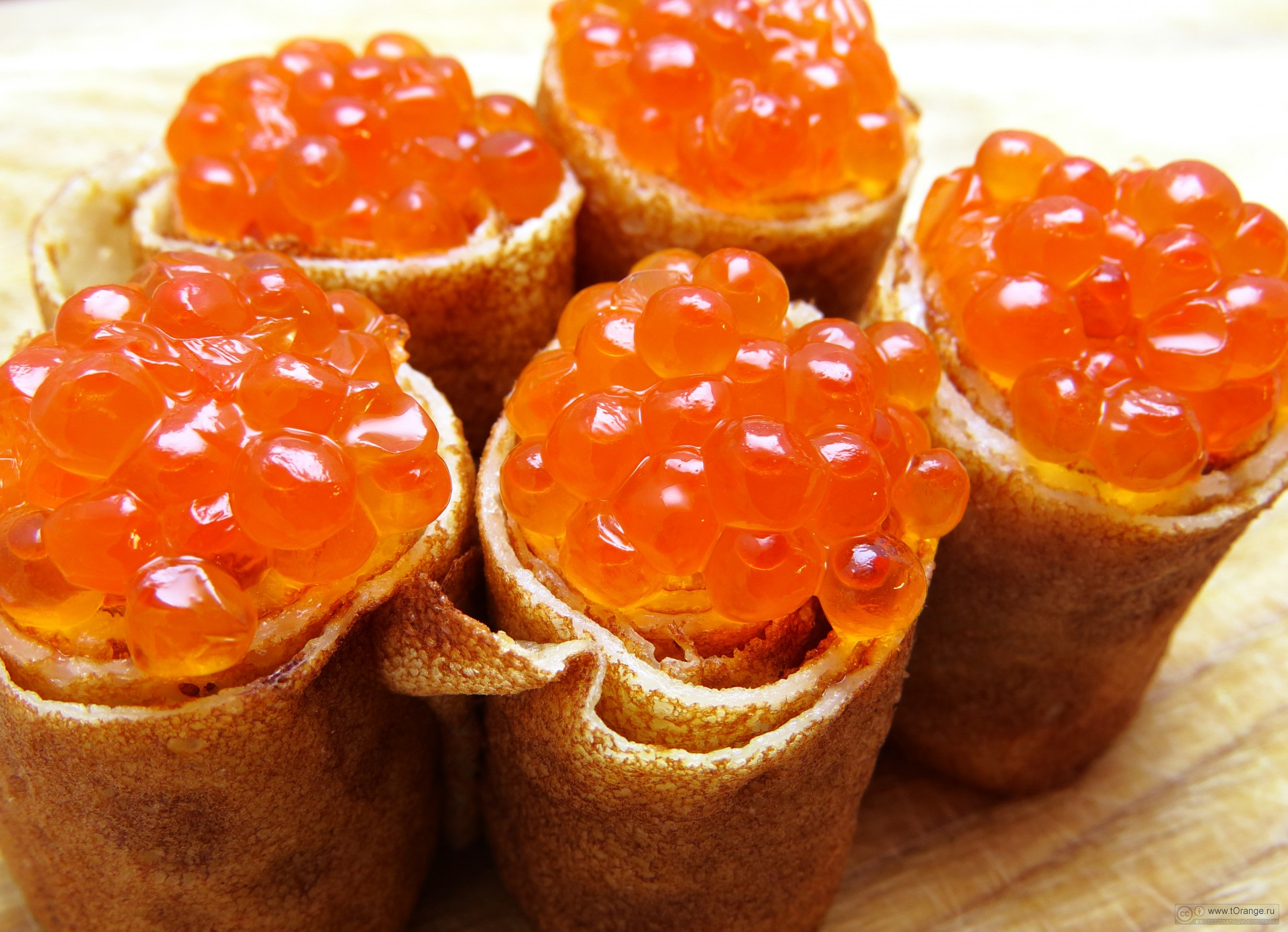 Blini with salmon roe. Tradional Easter food in Russia and Ukraine.